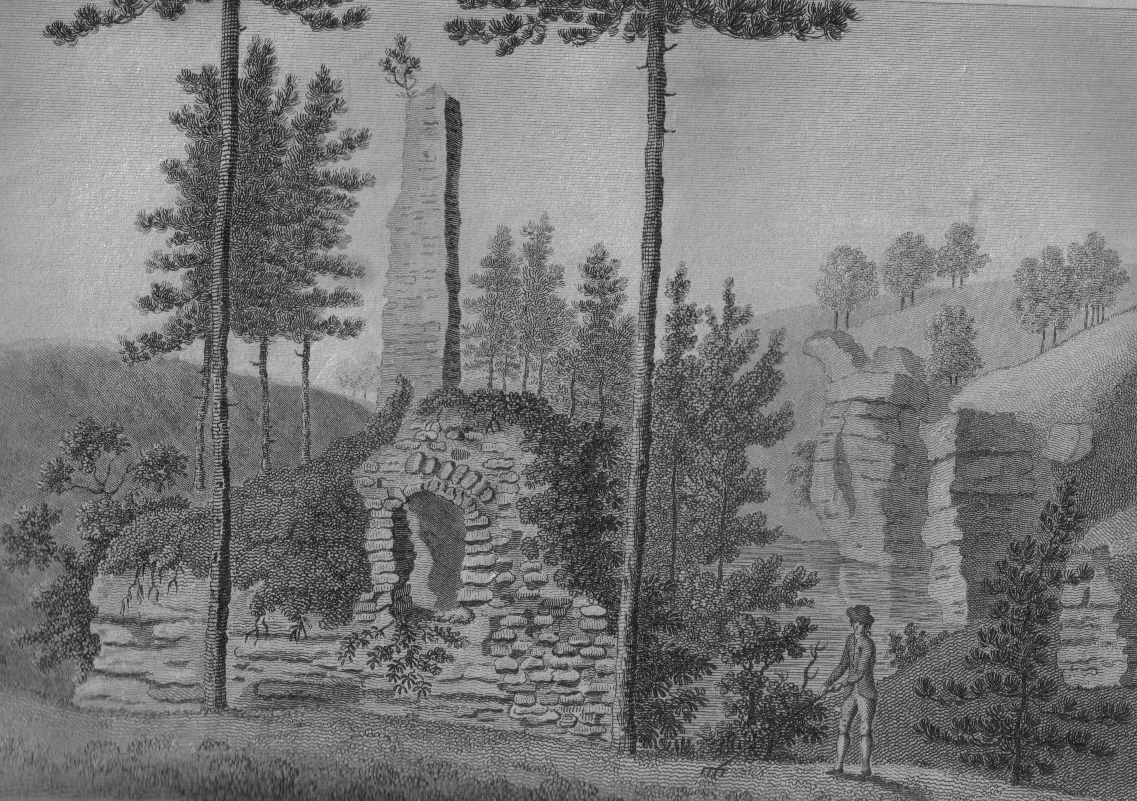 Auchinleck castle, Ayrshire, Scotland in 1790